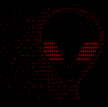 The official NullCrew logo.